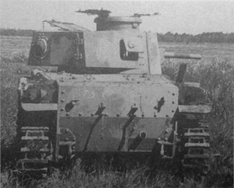 Imperial Japanese Army Type 1 medium tank Chi-He rear view.